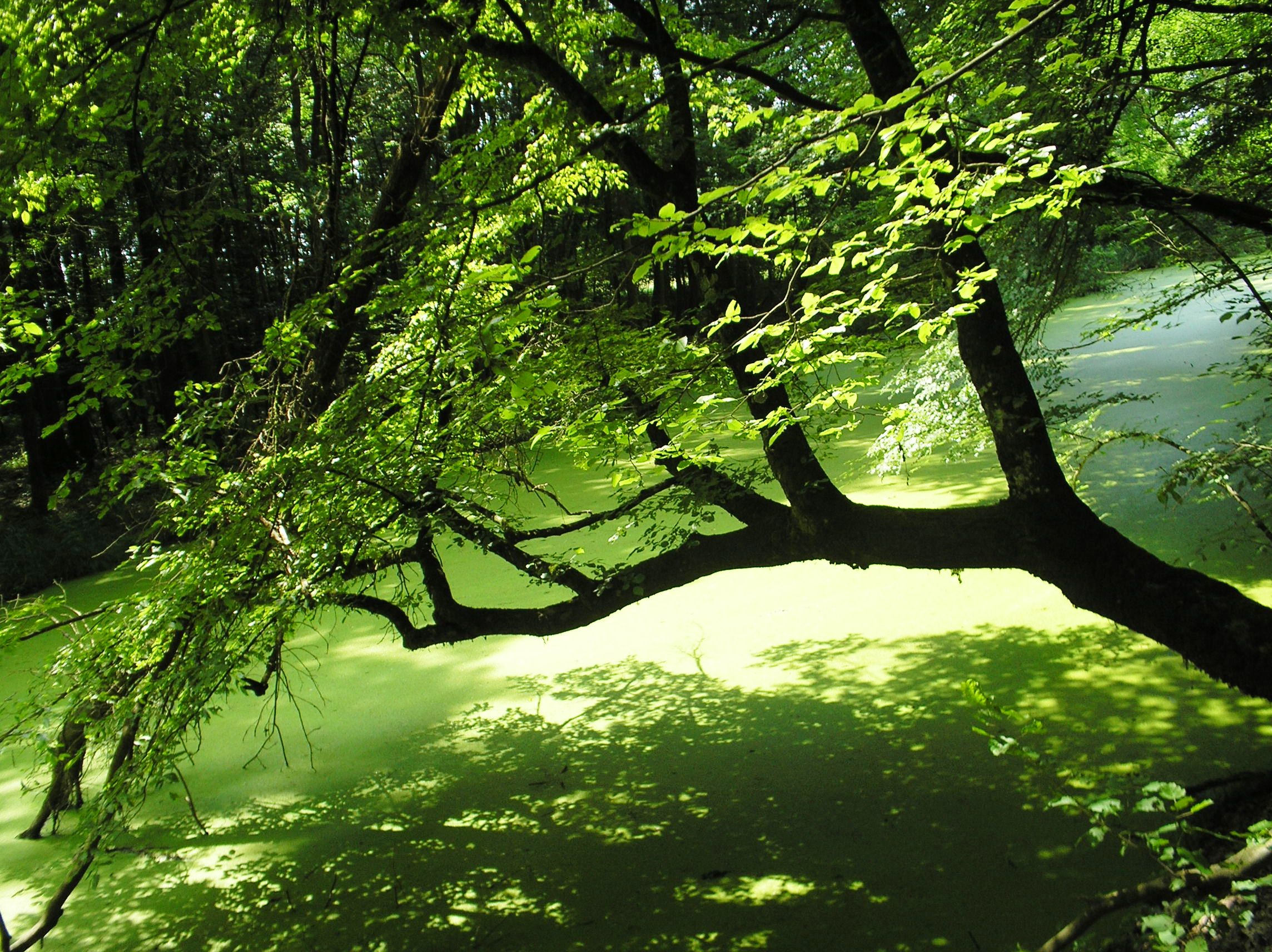 Tree by river of Ilova, Croatia